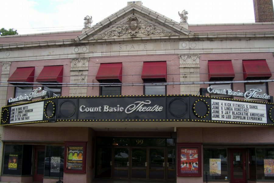 Personal photo of the Count Basie Theatre, Red Bank, New Jersey